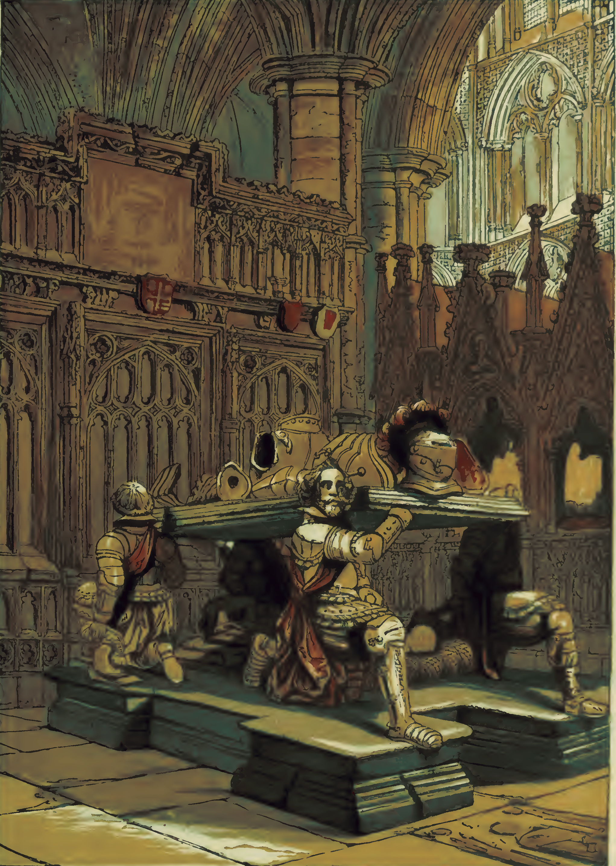 Sir Francis Vere's tomb in Westminster Abbey, from Old England : a pictorial museum of regal, ecclesiastical, municipal, baronial, and popular antiquities (1860?), Charles Knight 1791-1873. After page 286